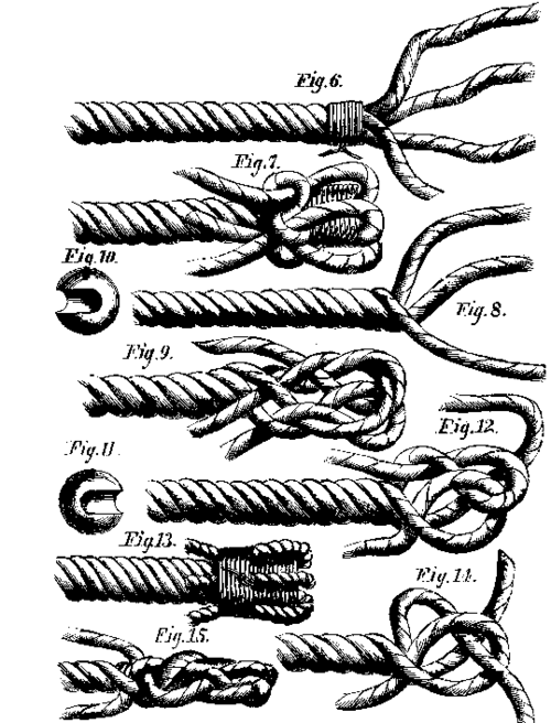 1871 illustration of stages in making an end splice in a rope